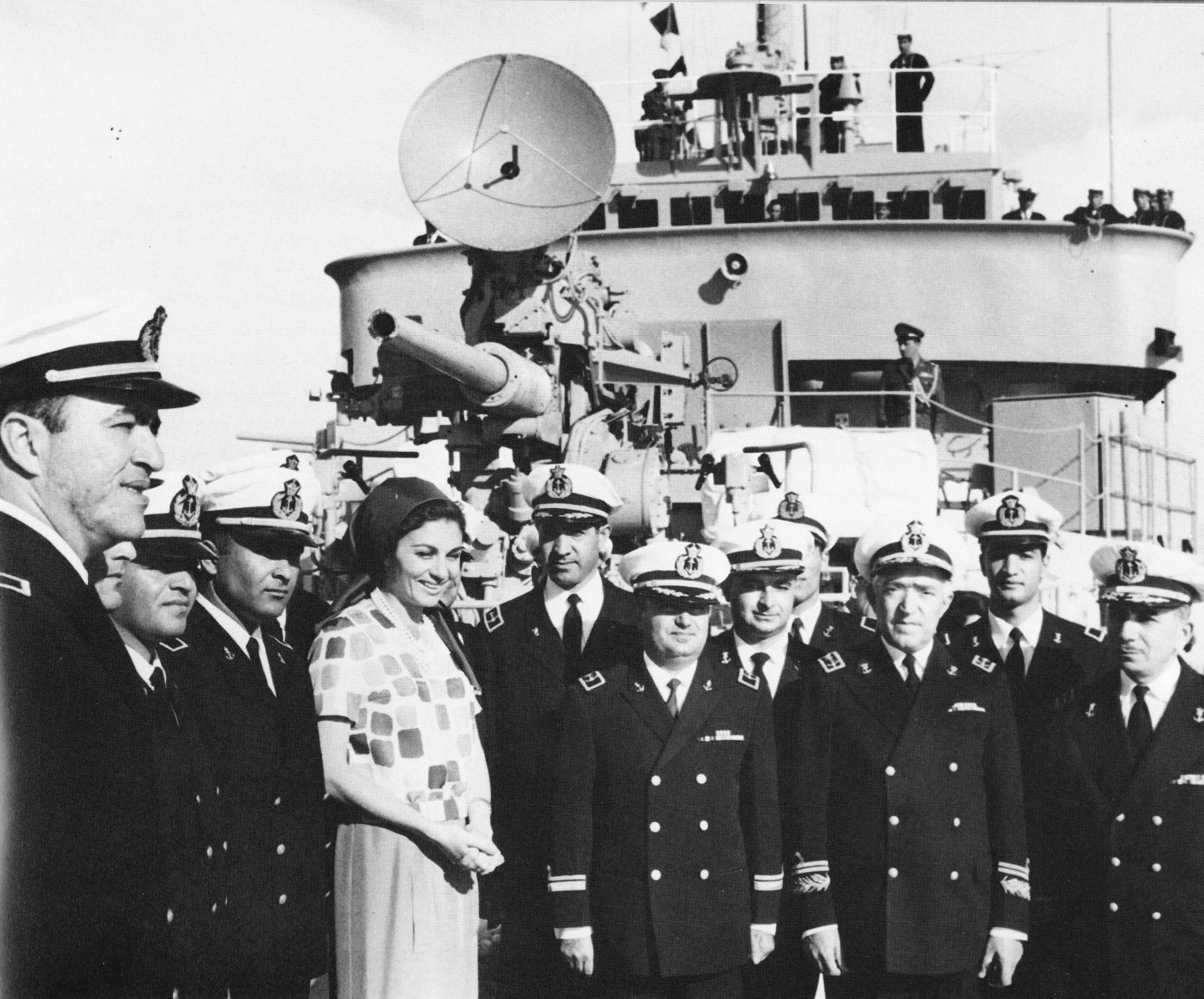 Shahbanu Farah Pahlavi visit Iranian Navy at Bandar Abbas